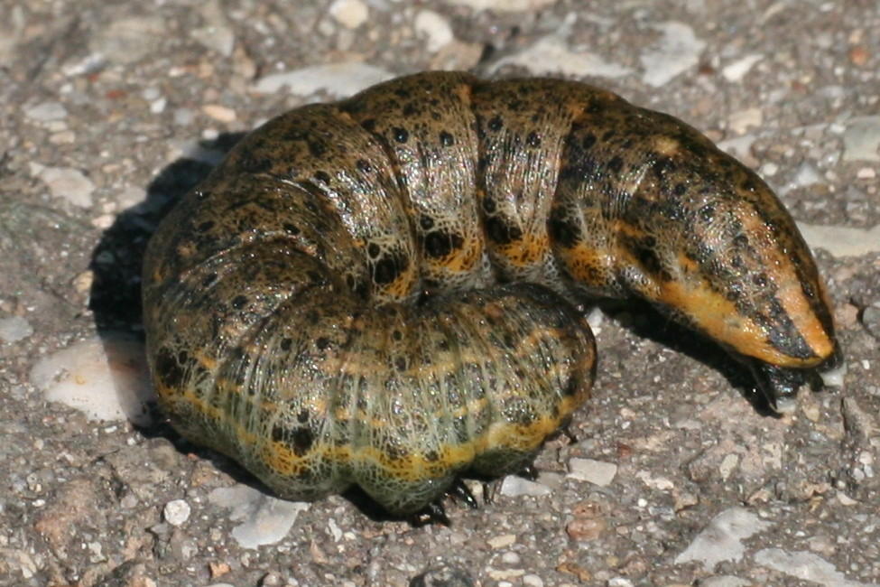 A caterpillar of the Shark moth (Cucullia umbratica), photographed in Weinsberg on a path between a forest and a vineyard